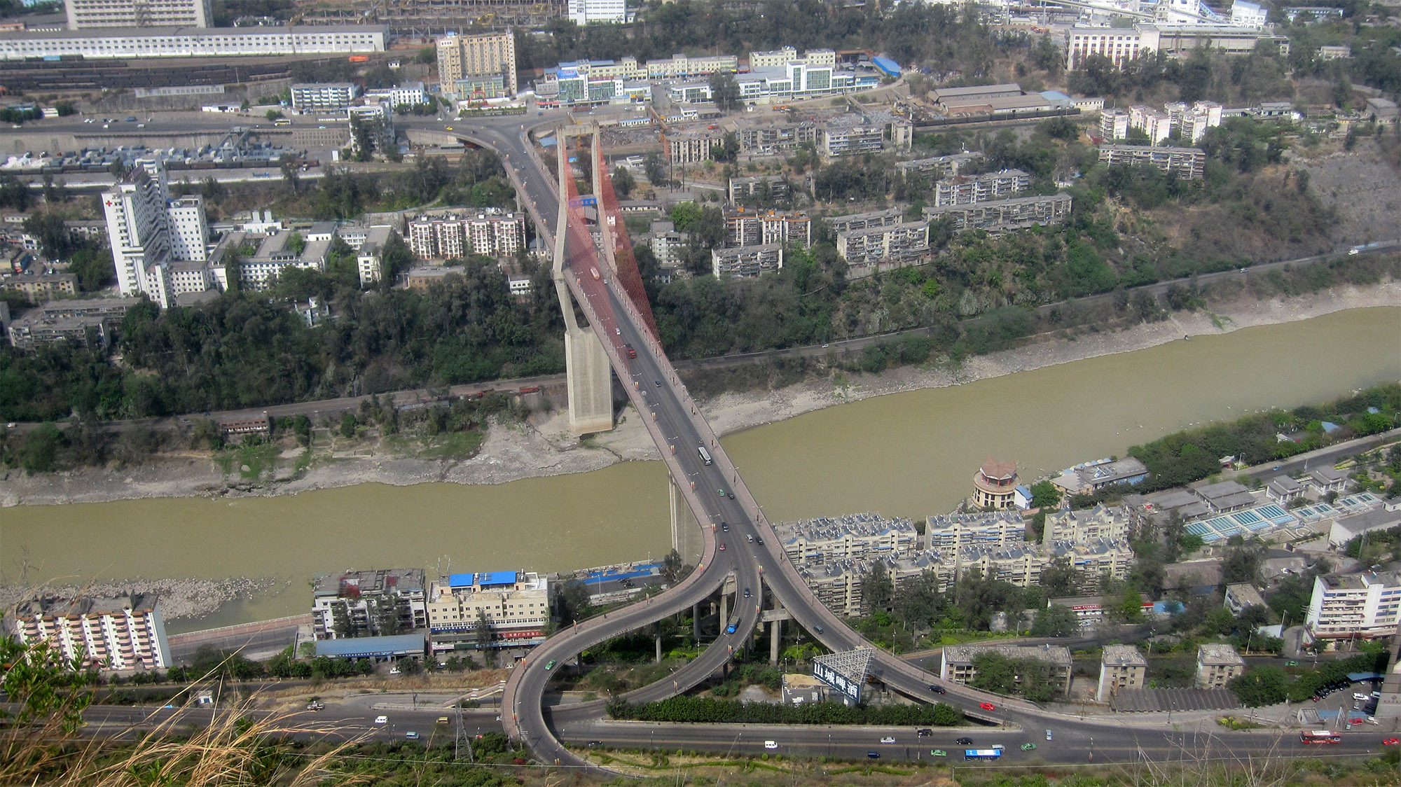 Overlook the Bingcaogang Bridge